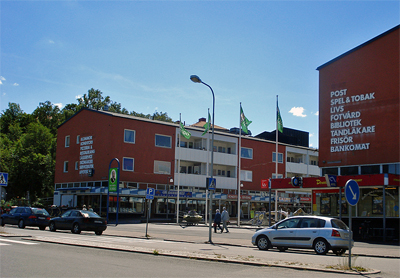 Dr Fries Torg in Göteborg, Sweden